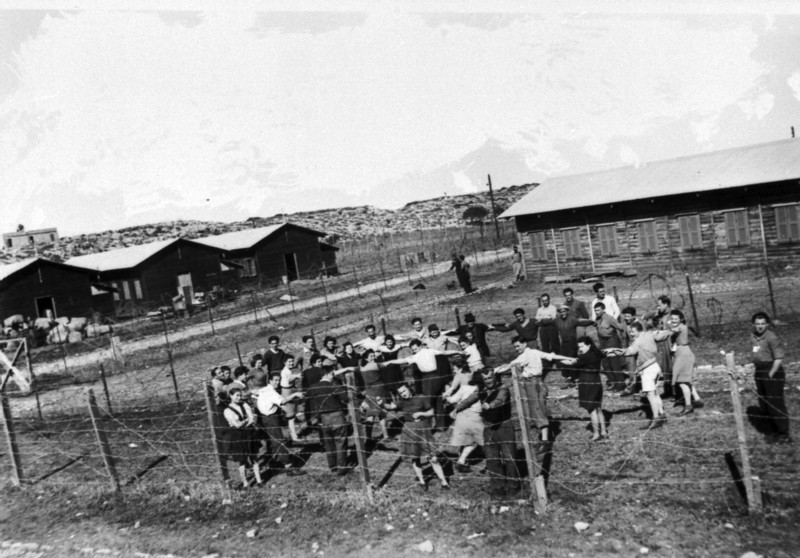 Illegal immigrants camp. Atlit, Immigration to Israel